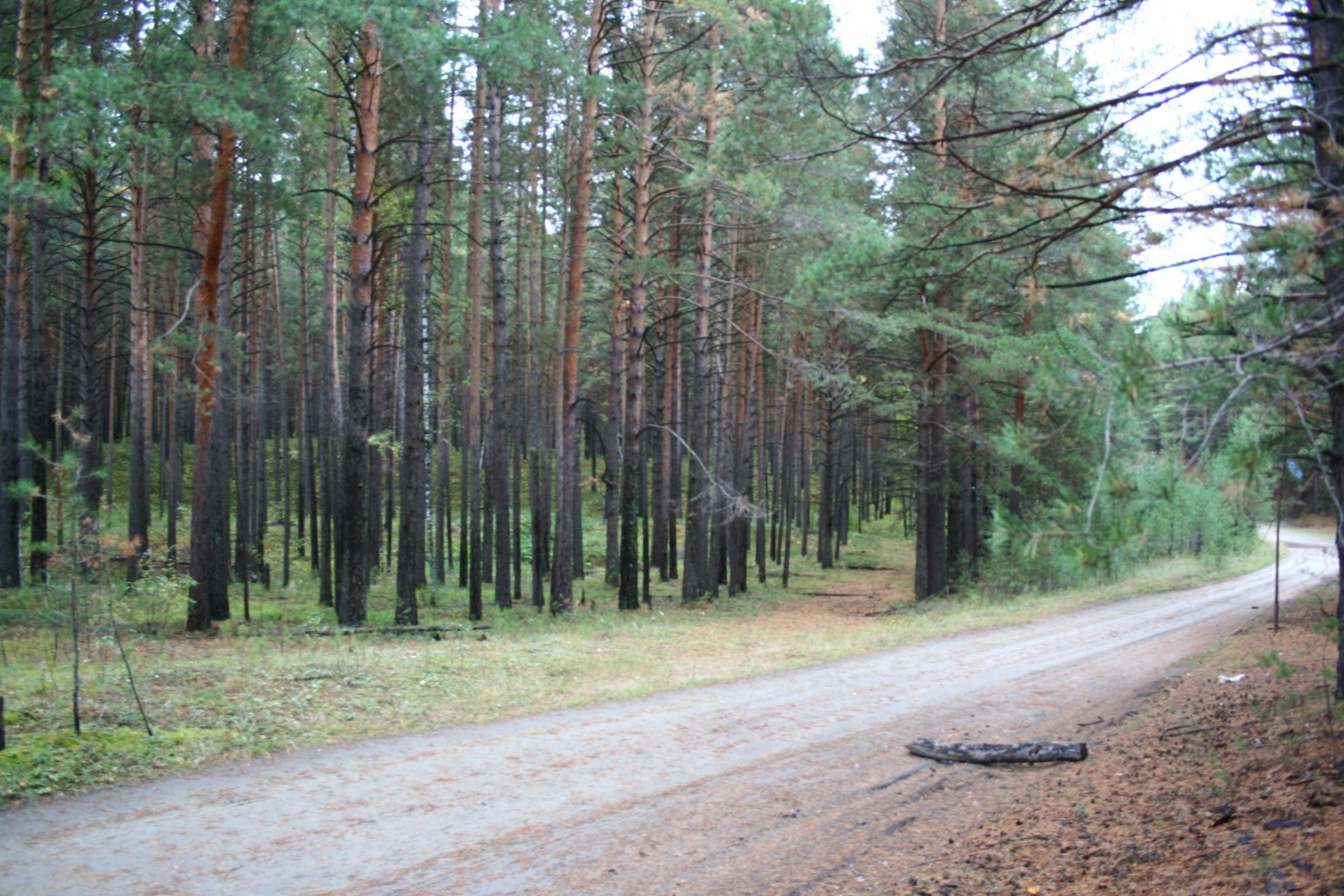 Road in forest